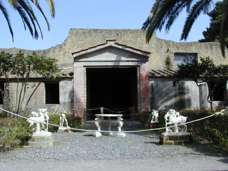 Herculaneum (Naples): panorama of the excavations